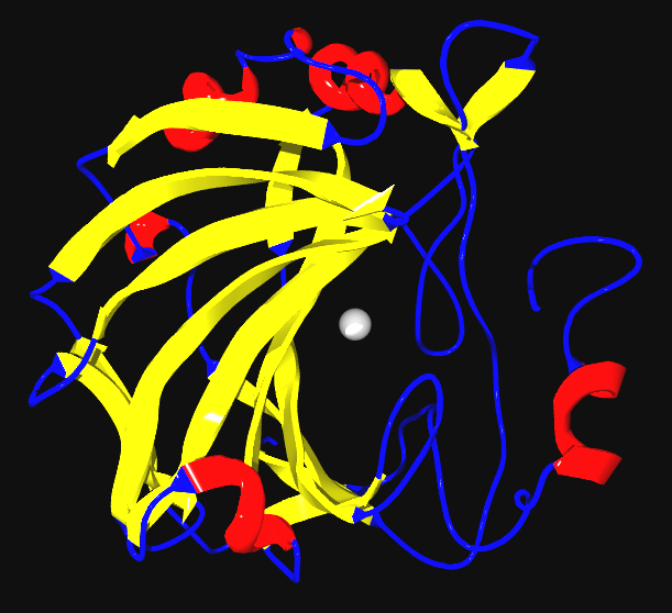 Ribbon diagram of carbonic anhydrase generated from PDB 1MOO